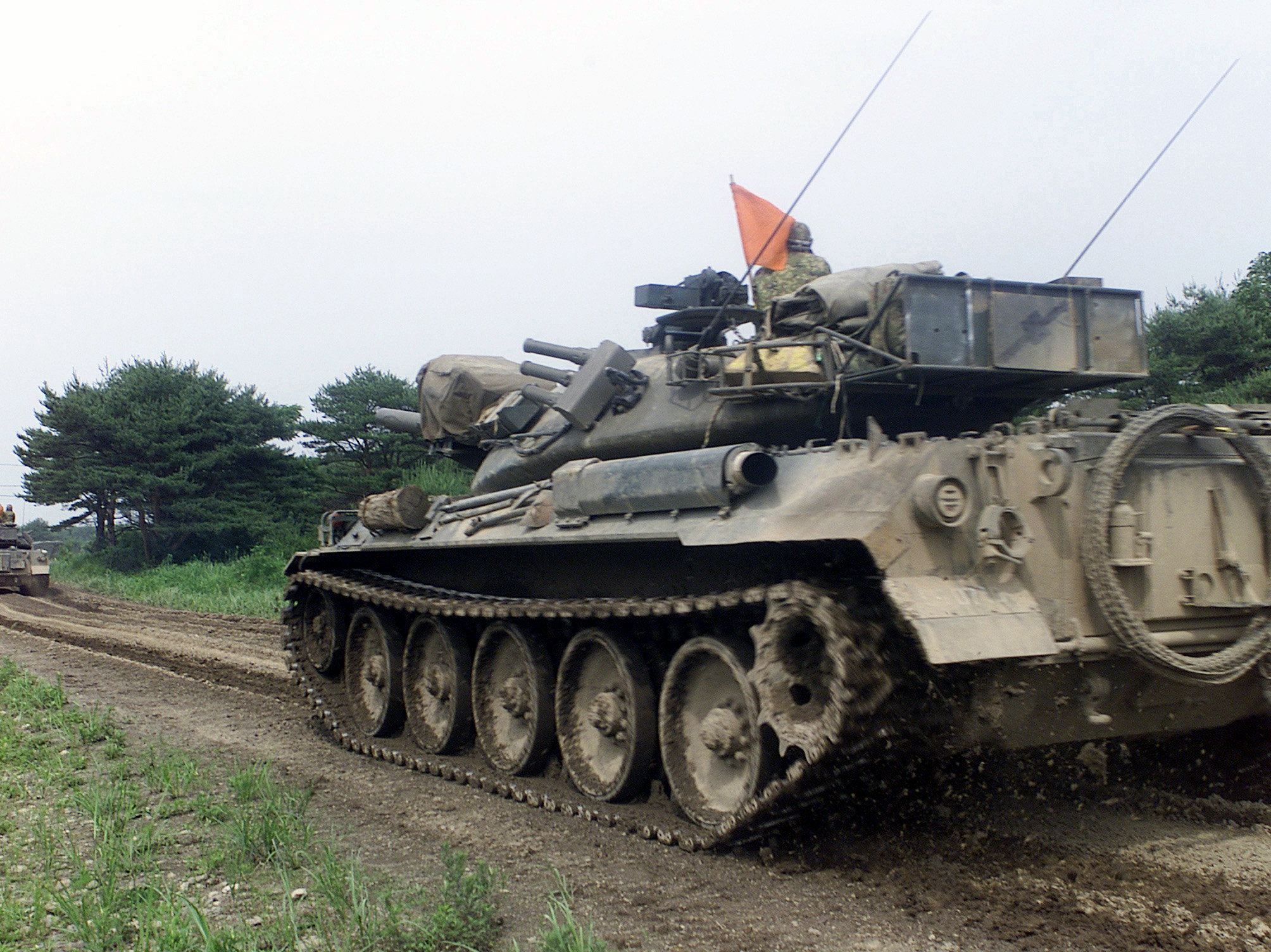 Japanese Ground Self Defense Force Soldiers relocating Mitsubishi Type 74 Main Battle Tanks for a static display during the opening ceremonies welcoming US Marines as they prepare for a live fire exercise at Ojojihara Maneuvering Training Area, Miyagi Prefecture, Japan. In coordination with the Japanese Ground Self Defense Force, 12th Marines from Camp Hansen Okinawa Japan, and 11th Marines India Battery from 29 Palms, California, will conduct live-fire training to sharpen their mission readiness and firing skills with the M198 155mm Medium Towed Howitzer.